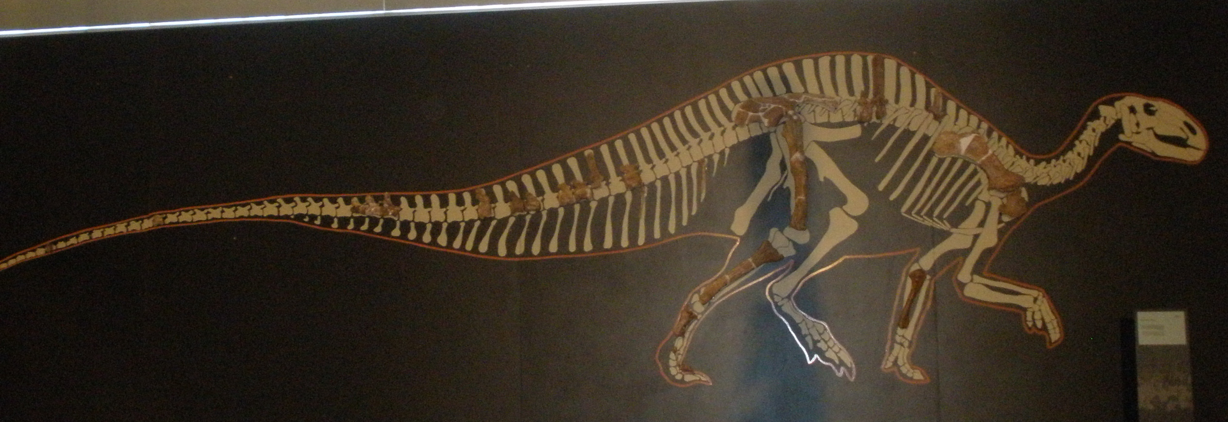 fossil of Rhabdodon